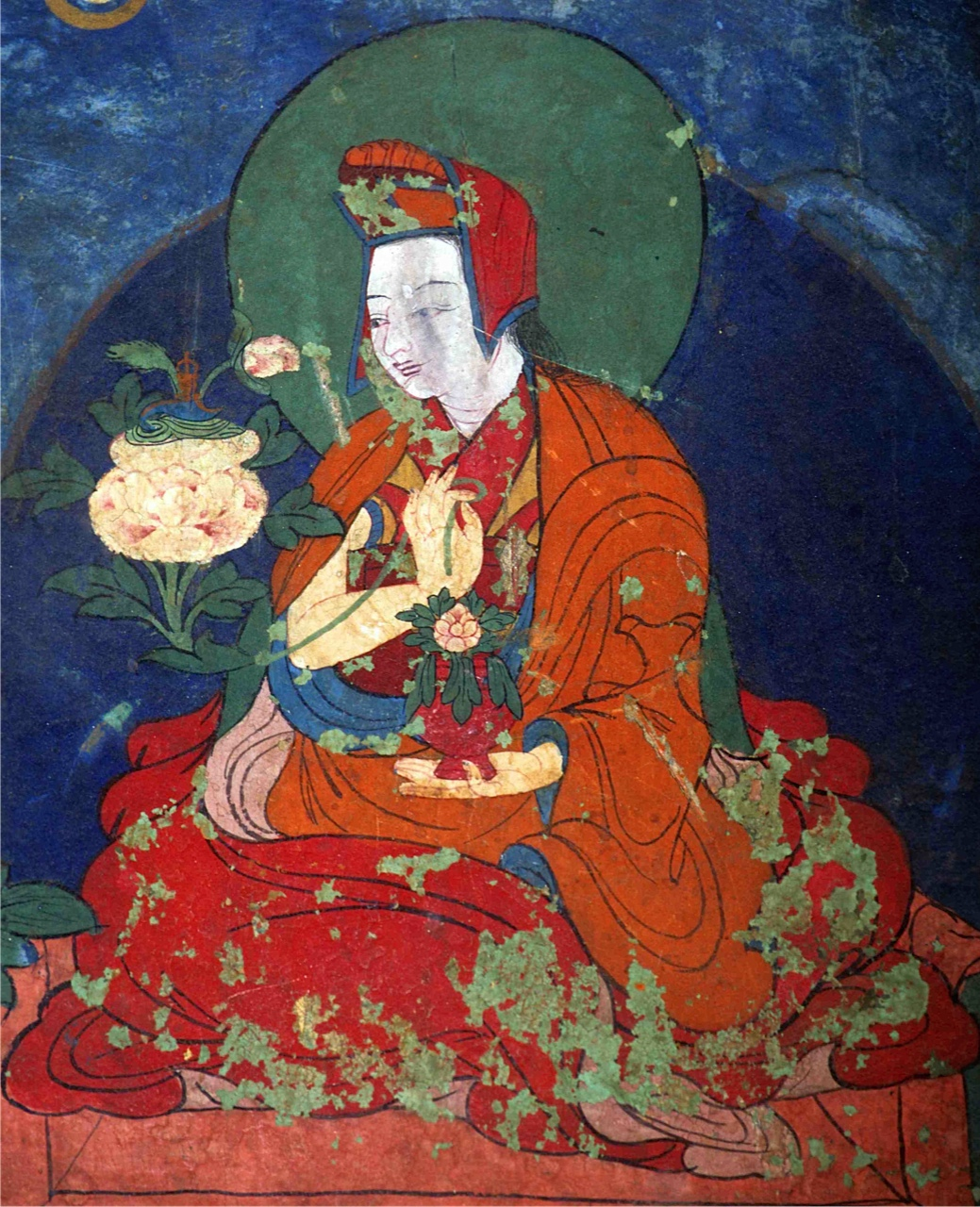 The First Samding Dorje Pakmo, Chokyi Dronma b.1422 - d.1455/1467. Mural painting at Neymo Chekar monastery.